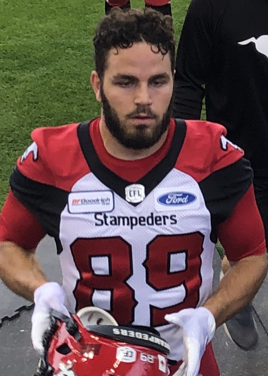 Colton Hunchak, receiver for the Calgary Stampeders.